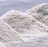 Piles of salt (cropped from Delwedd:Pentyrrau halen.jpg